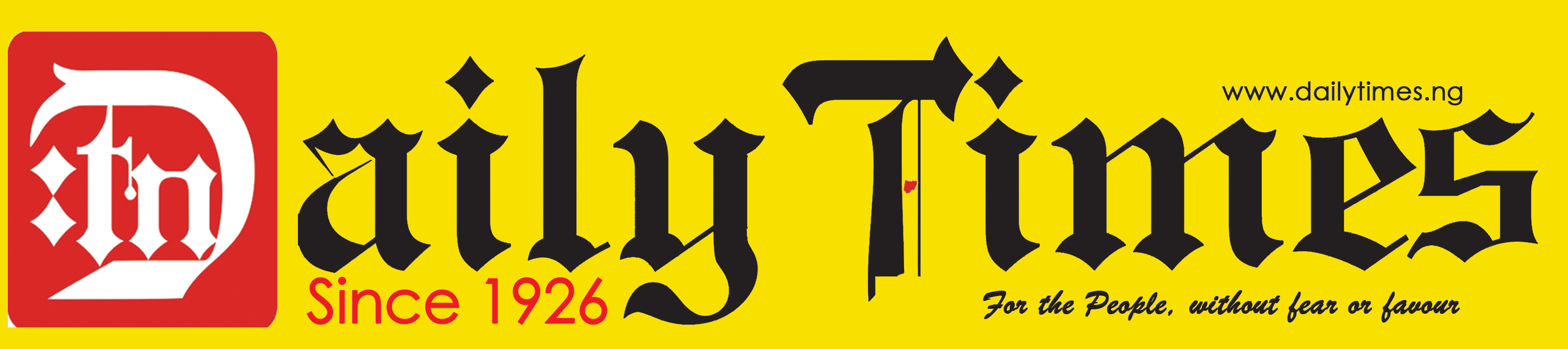 Daily Times of Nigeria new logo